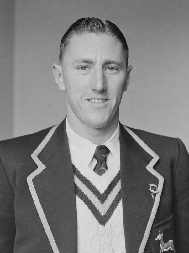 Alexander Ian Kirkpatrick, centre, Springbok rugby team during tour of New Zealand